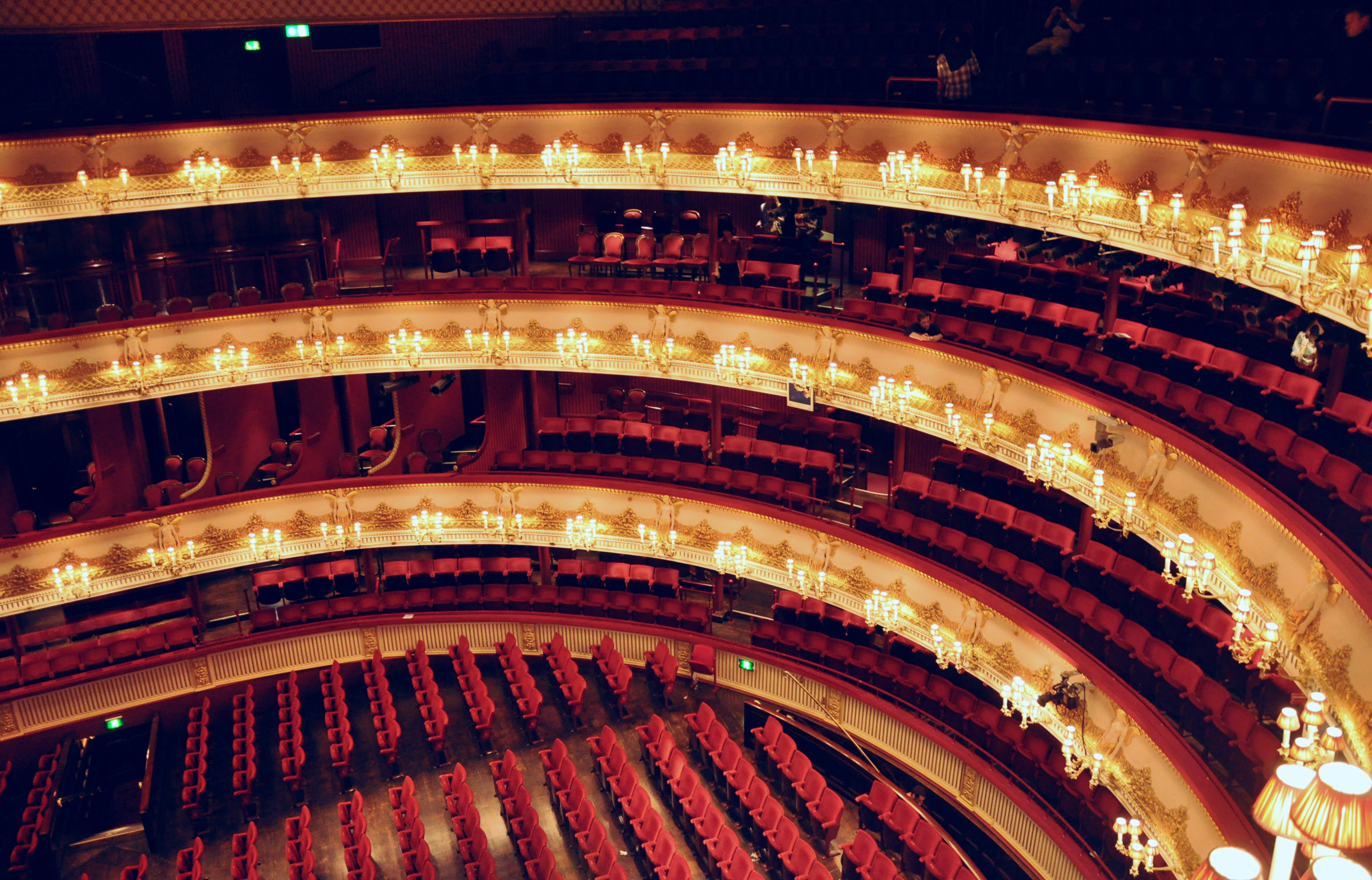 London, Royal Opera House, Covent Garden, auditorium